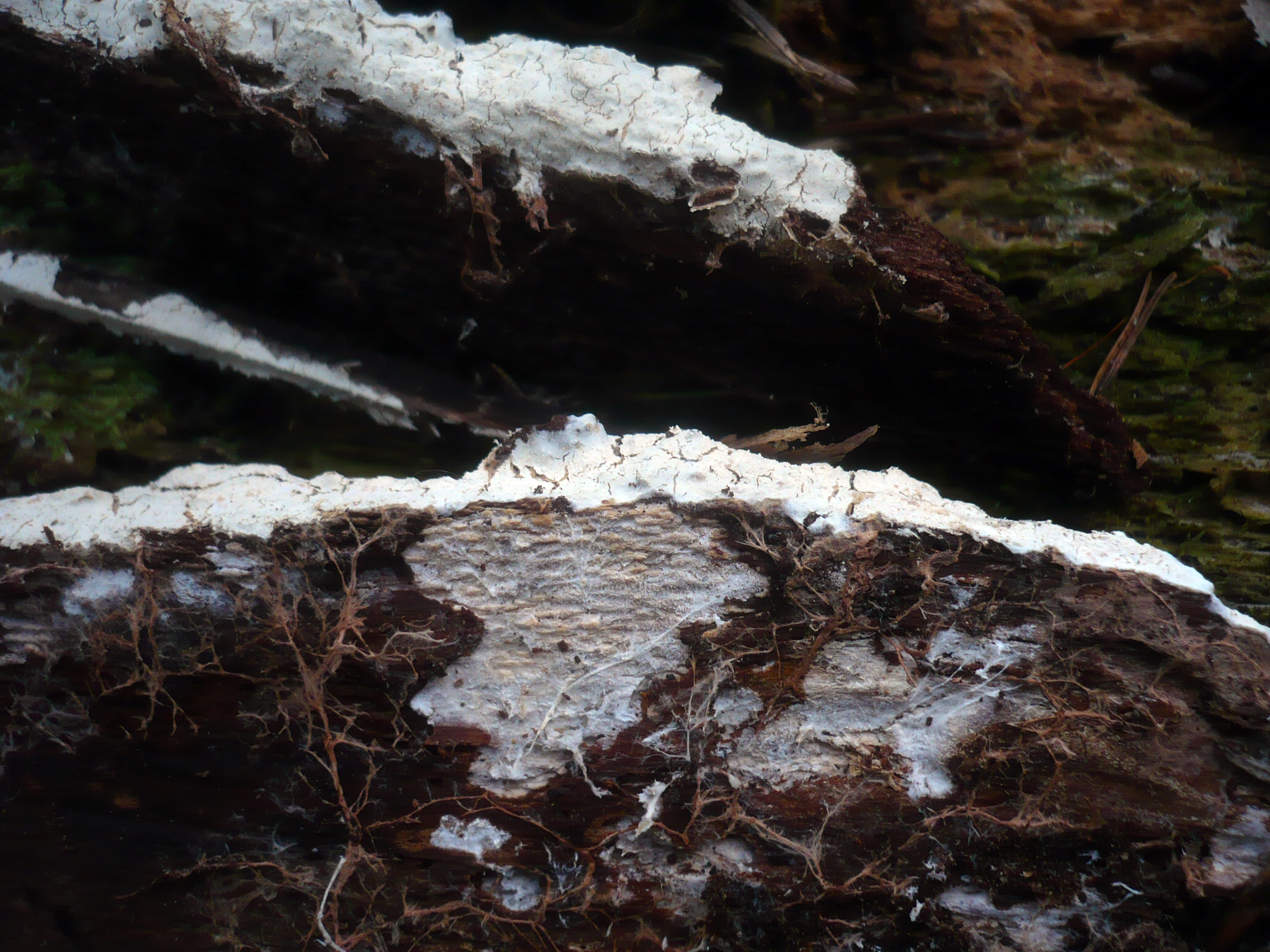 The resupinate fungus Leptosporomyces roseus. Photographed on fir log in Willersdorf, Willersdorfer Schlucht, Bezirk Oberwart, Burgenland, Austria. See Mushroom Observer page for more collection notes.